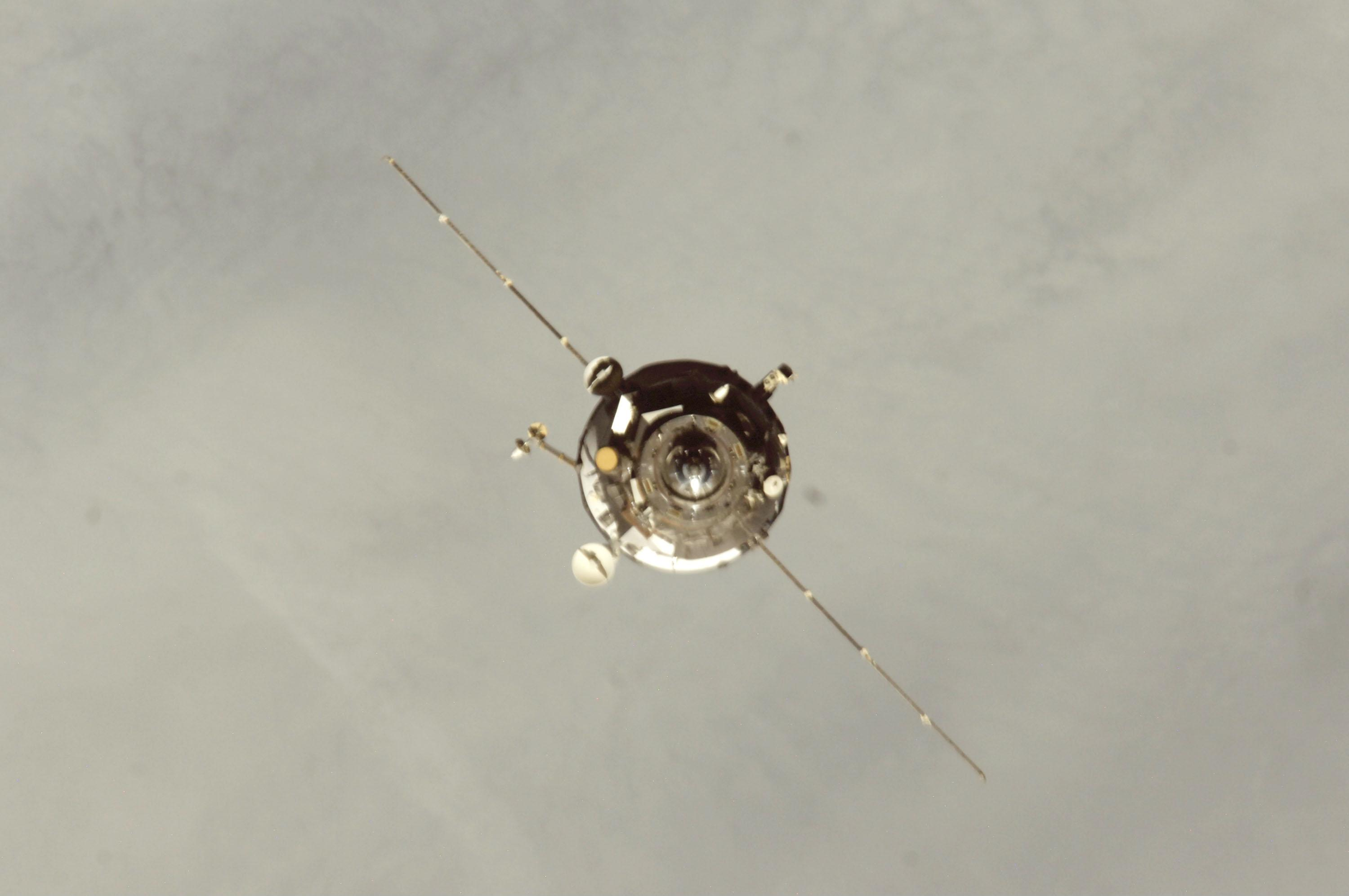 Progress M-64 departing from the International Space Station